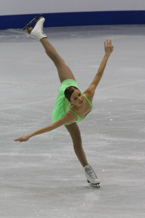 Jenni Vähämaa performs a spiral during her short program at the 2008 World Junior Figure Skating Championships. She placed 6th in that segment of the competition and 4th overall.